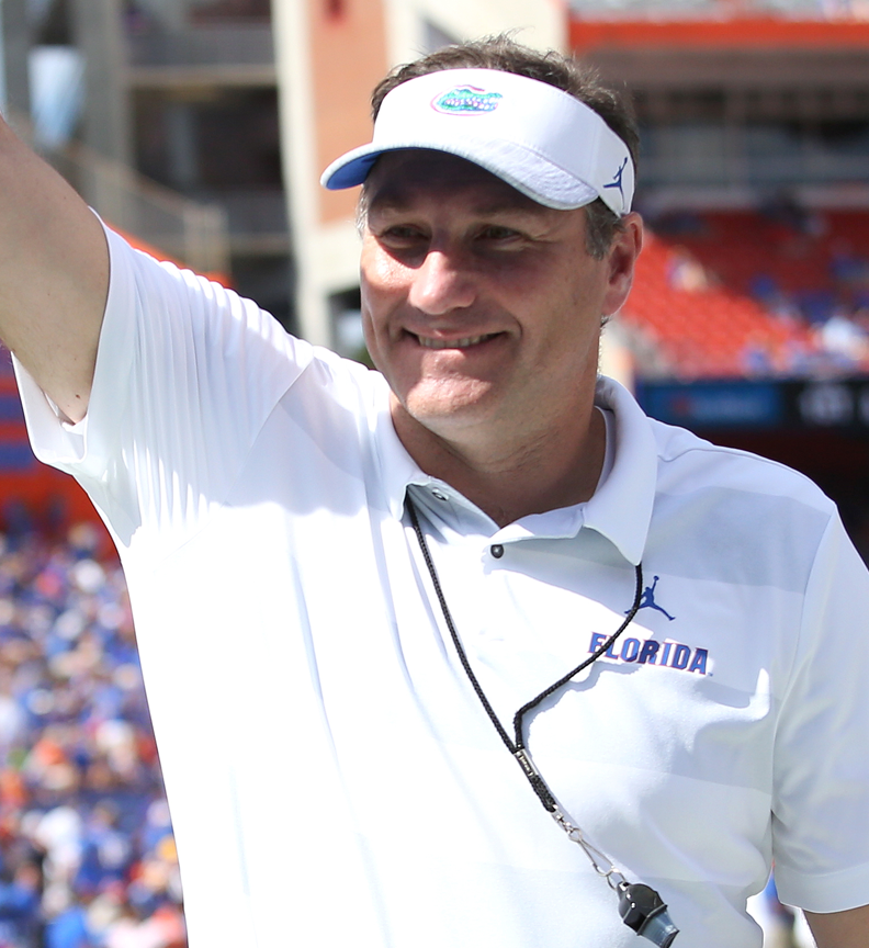 Florida Head Coach Dan Mullen on Steve Spurrier-Florida Field at Ben Hill Griffin Stadium before the Florida-LSU game on October 6, 2018.